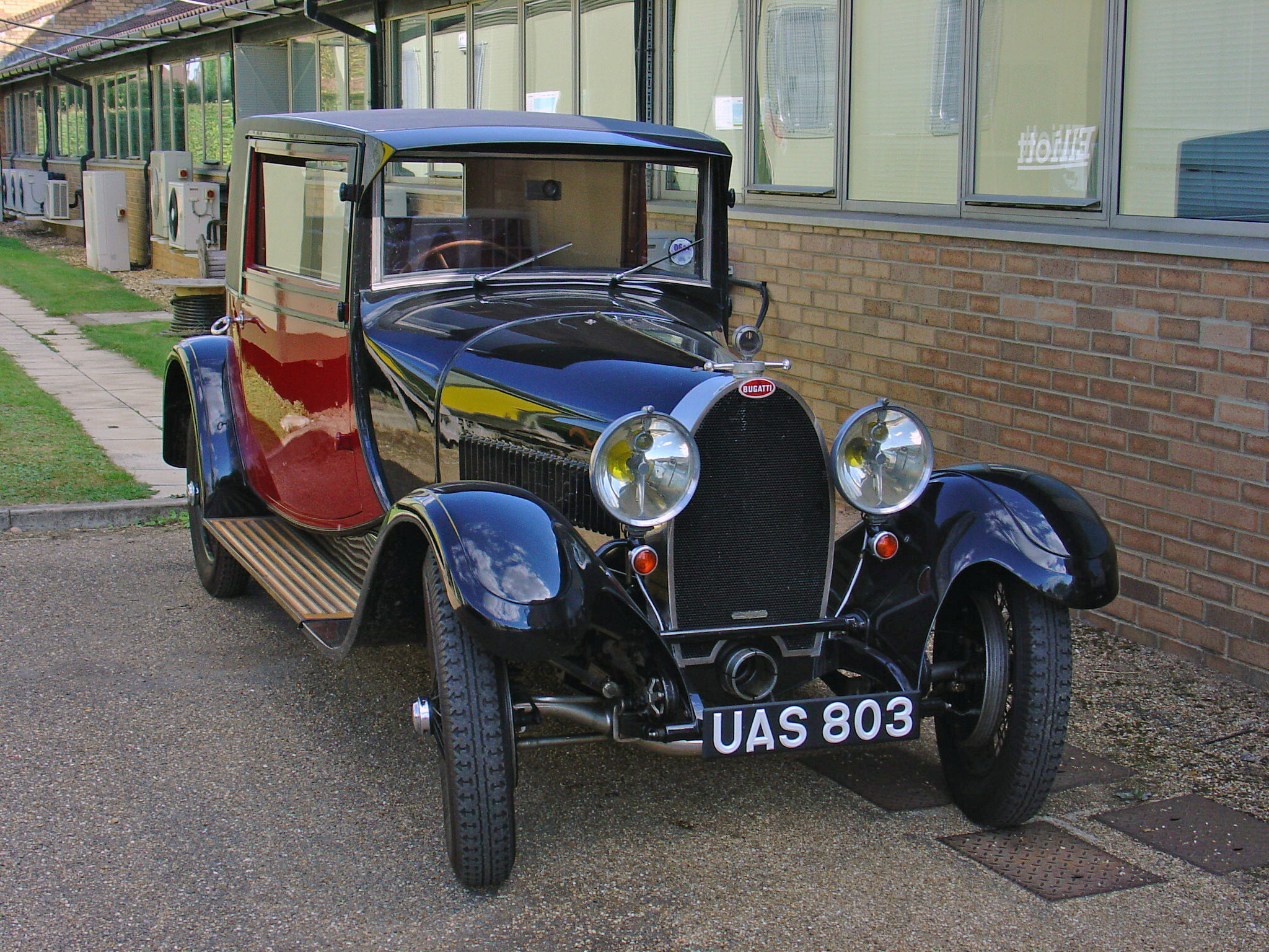 belongs to a colleague of mine 1929 Bugatti Type 44 'Fiacre' Coupé Coachwork by Jean Bugatti Registration no. UAS 803 Chassis no. 441193 Engine no. 398